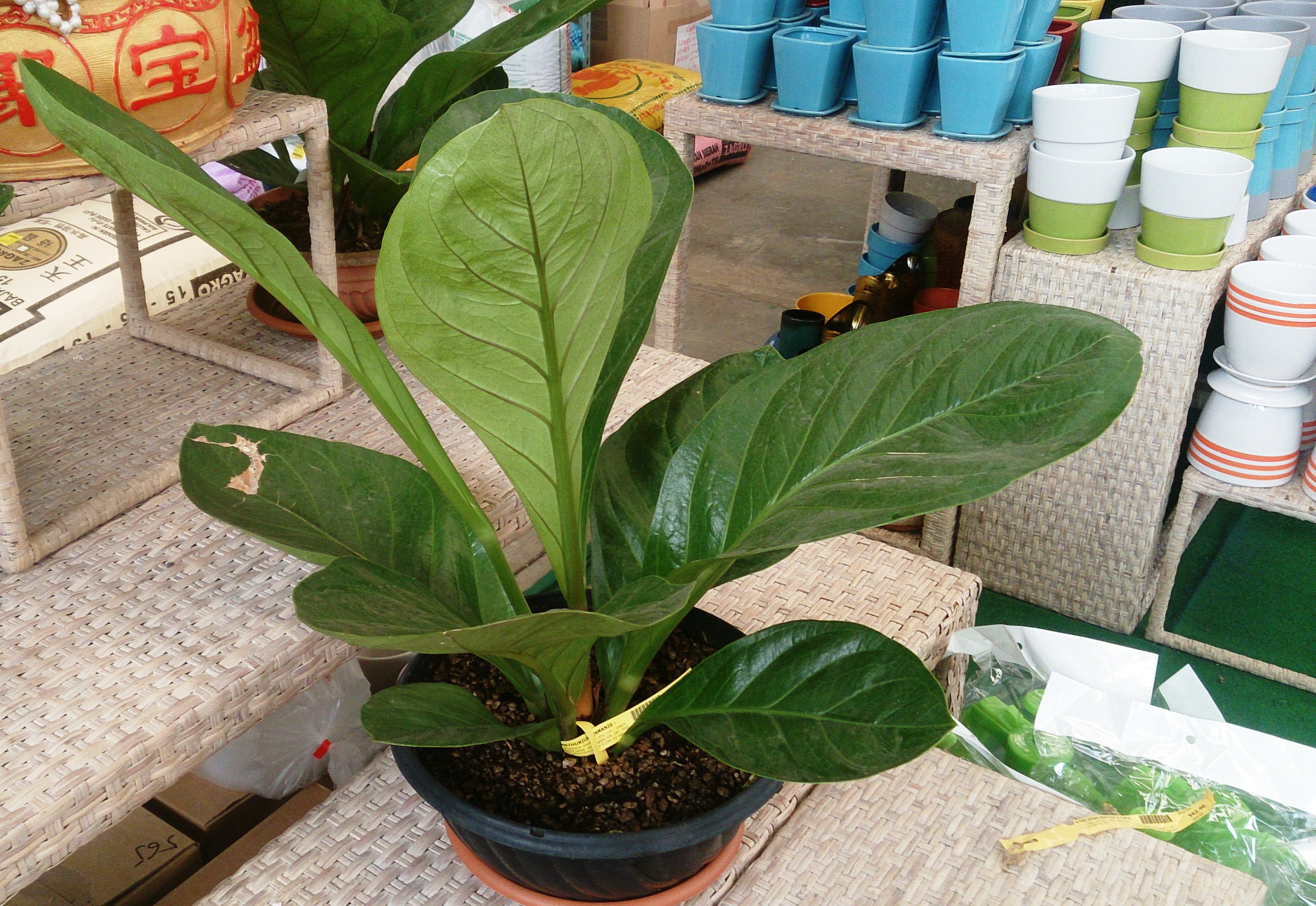 Anthurium jenmanii